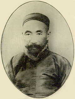 Wang Kangnian